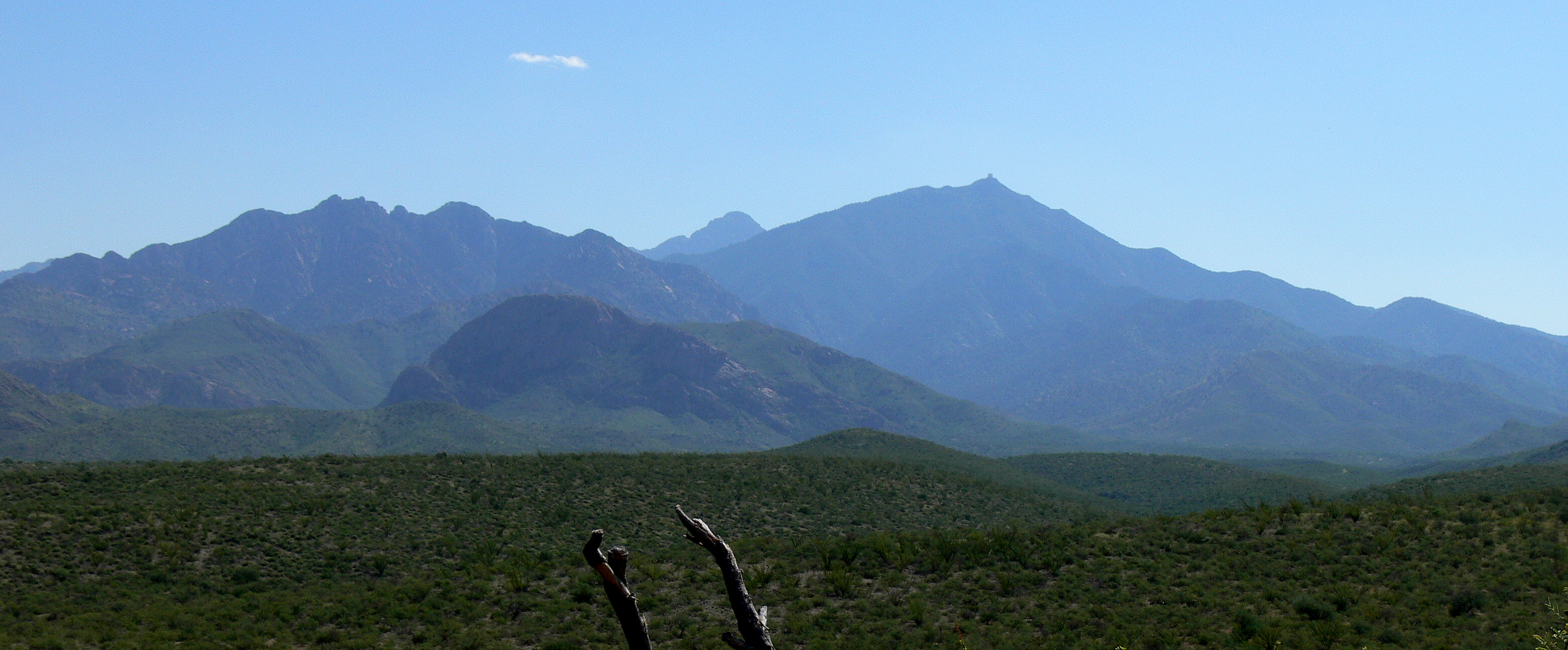 Santa Rita Mountains are located approximately 35 miles south from Tucson, Arizona. This image was taken from the Mount Hopkins Road from a road spot located at 5-6 km west-south-west to the range.